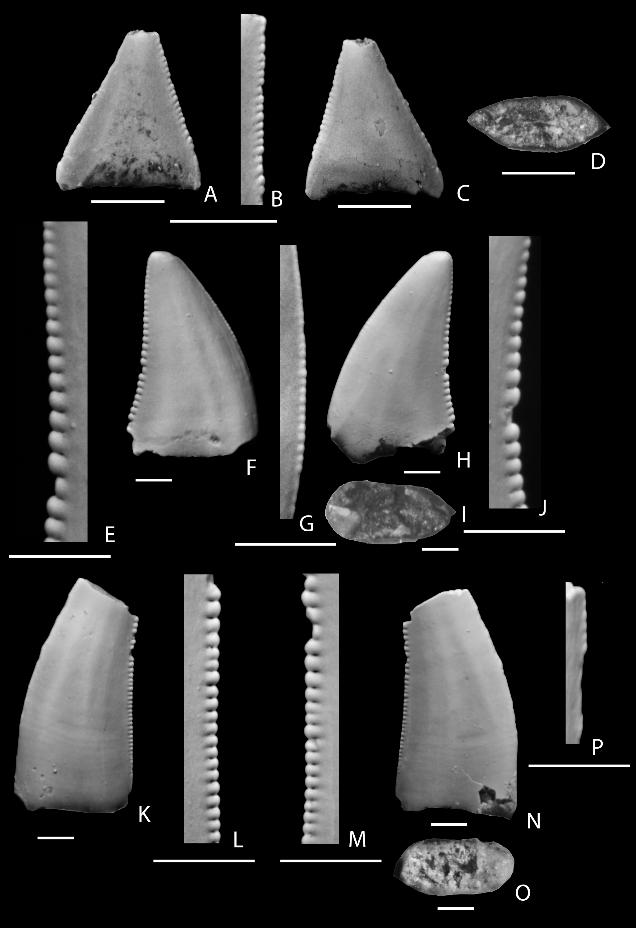 Cf. Richardoestesia spp. from the San Juan Basin, New Mexico. A–D, cf. Richardoestesia sp. tooth (NMMNH P-52503) from the Fruitland Formation showing labial (A), labial side of distal carina (B), lingual (C), and basal (D) views; E–J, cf. R. gilmorei tooth (NMMNH P-33482) showing lingual side of distal carina (E), lingual (F), lingual side of mesial carnia (G), labial (H), basal (I) and lingual side of distal carina (J) views; K–P, tooth (NMMNH P-32753) showing labial (K), labial side of distal carina, (L), lingual side of distal carina (M), lingual (N), basal (O), lingual side of mesial carina (P) views. The scale bar below each image is 1 mm long.